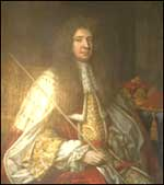 Portrait of William Douglas, 1st Duke of Queensberry (1637-1695)